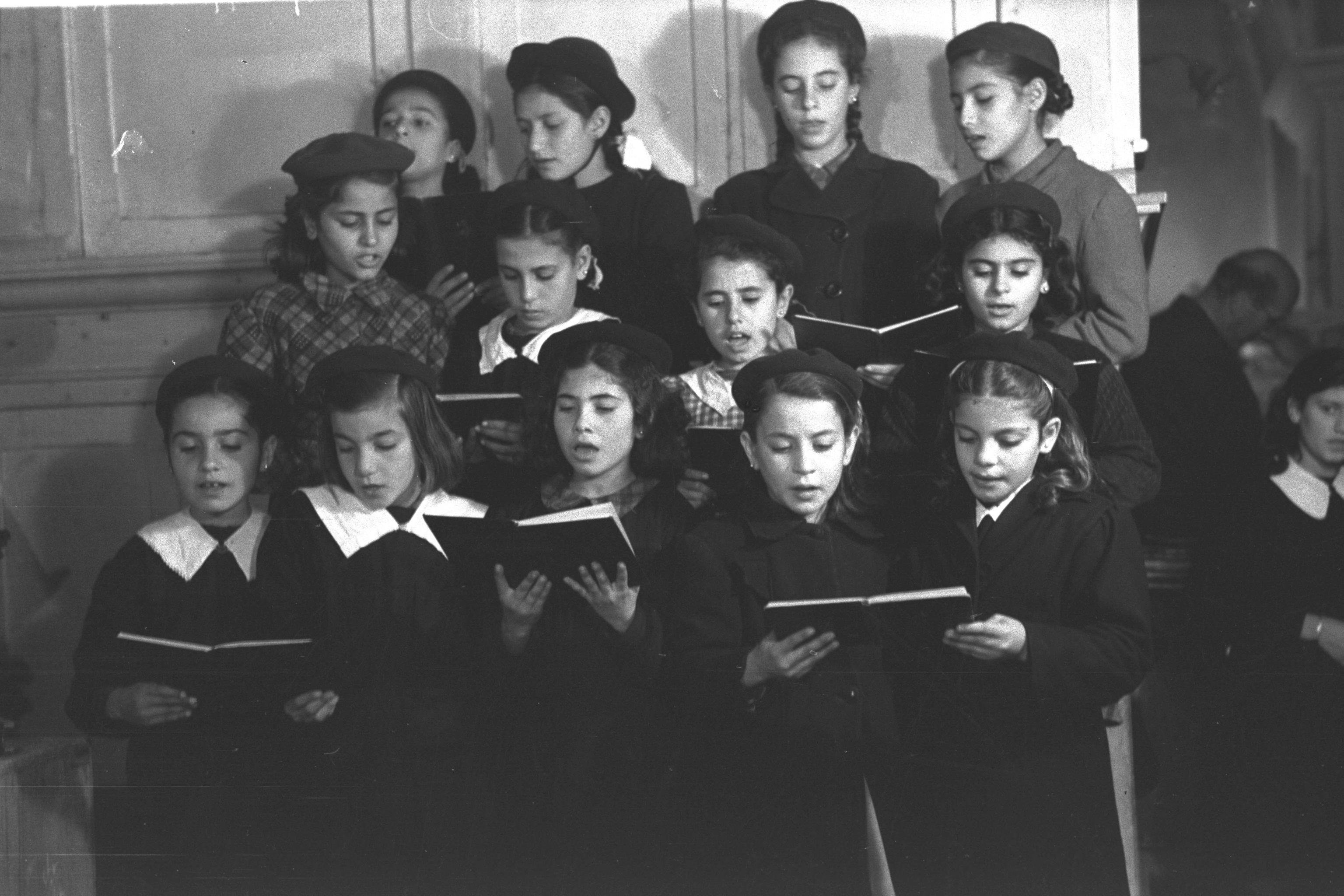 A rehearsal of a children's choir in the church of the Annunciation in Nazareth, during Christmas (24/12/1948) מקהלת ילדים בכנסיית הבשורה בנצרת, מתכוננת לחגיגות חג המולד